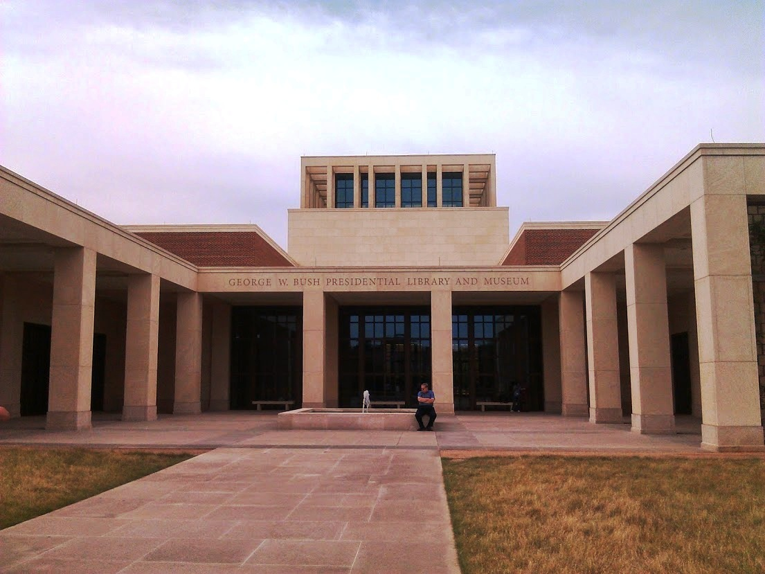 Front Entrice to the George W. Bush Presidential Center.